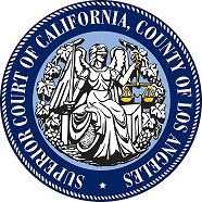 Seal of the Los Angeles County Superior Court.